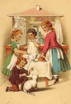 illustration from "Puppenköchin Anna" by Henriette Davidis, published in 1856